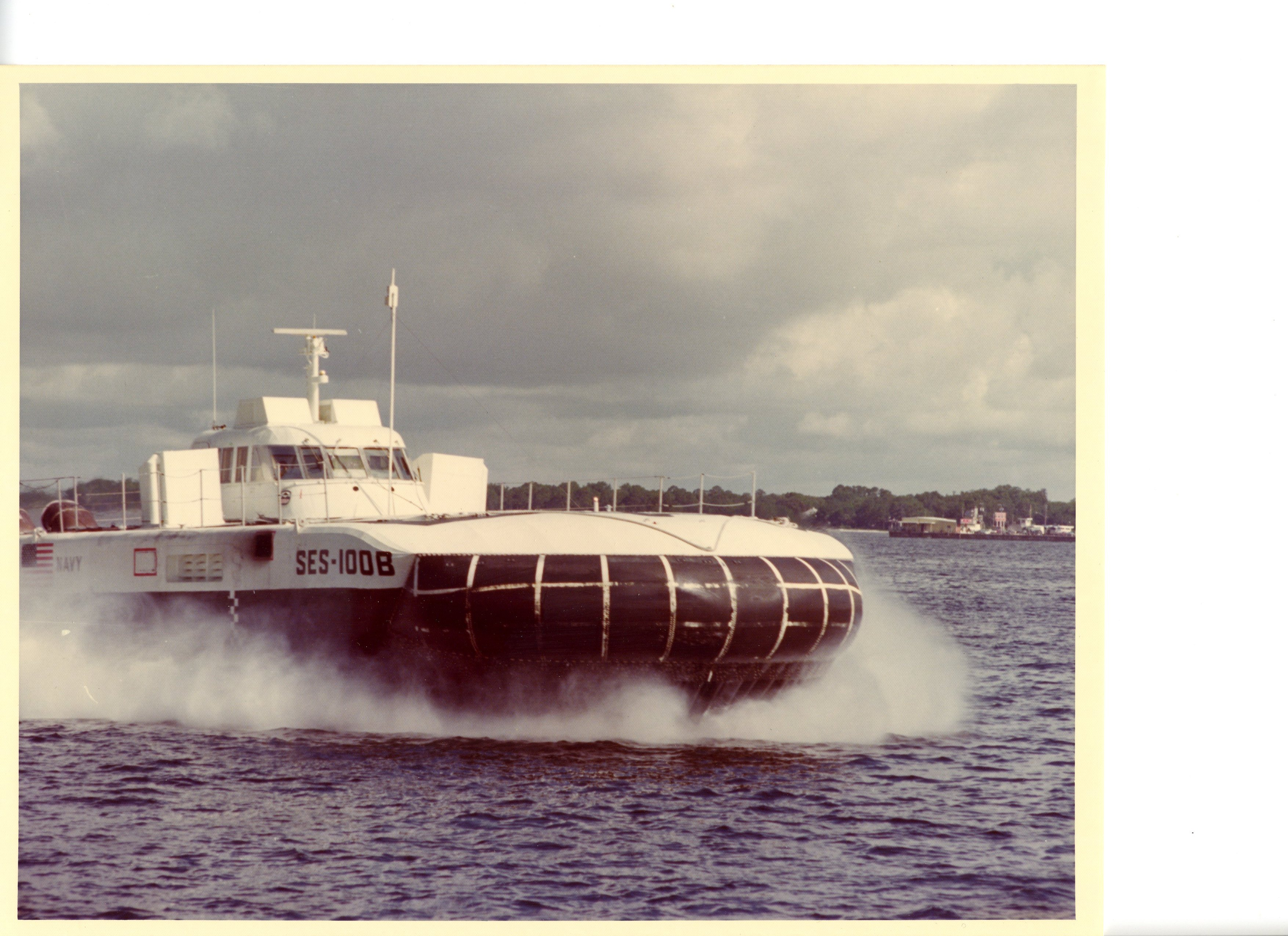 SES100B during speed run on St. Andrews Bay 1975